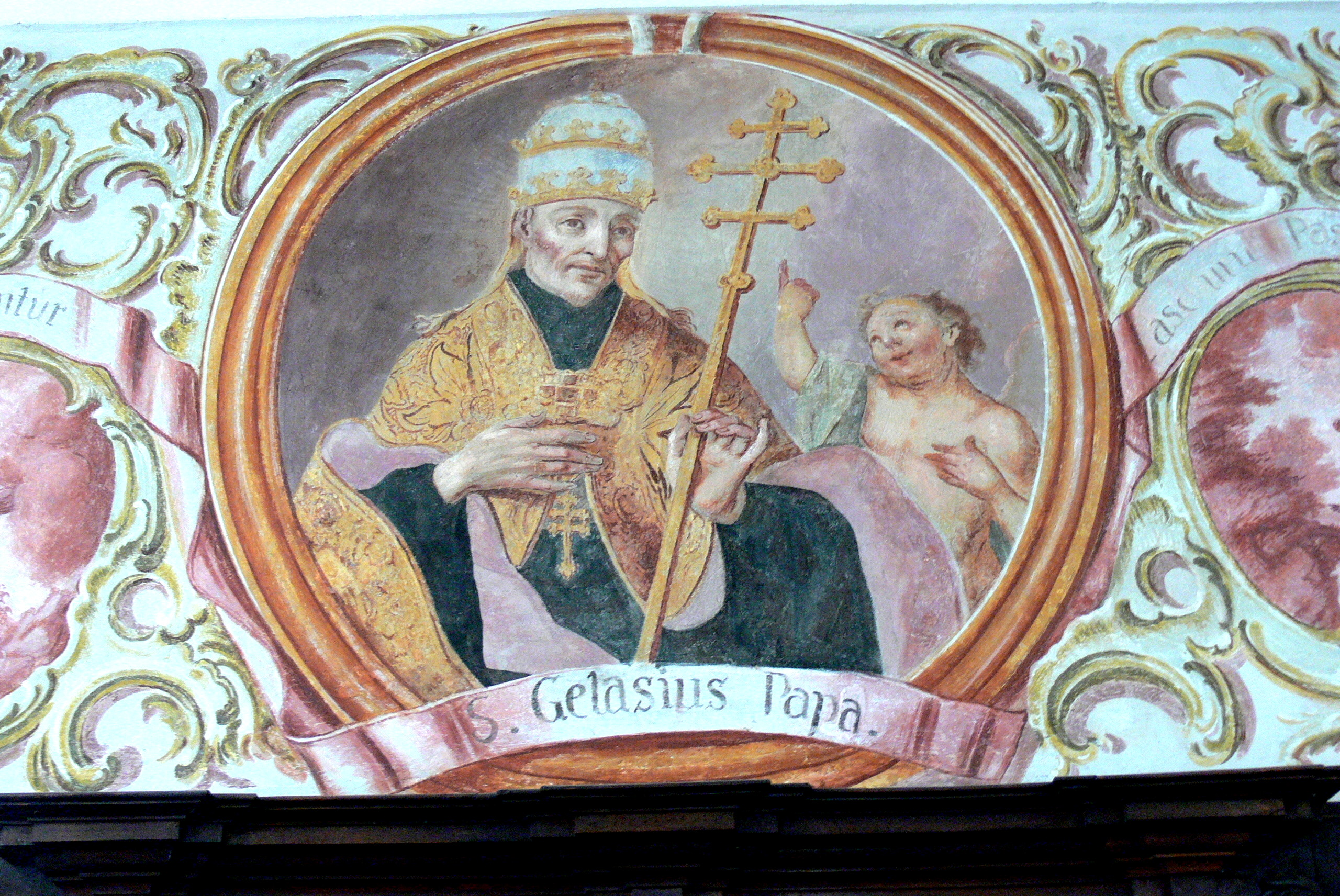 Rattenberg (Tyrol). Saint Augustine church - Fresco ( 18th century ) showing pope Gelasius II.